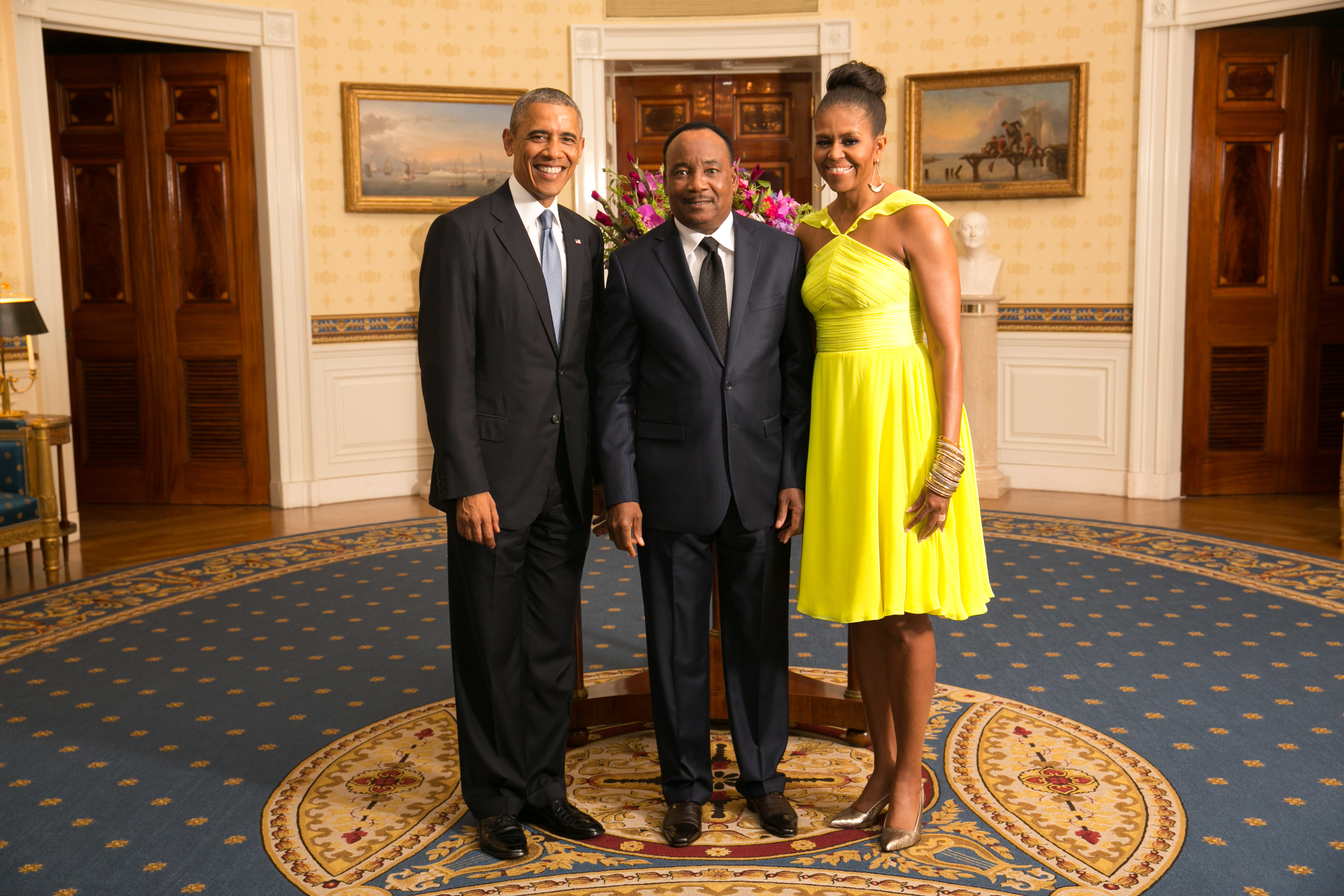 President Barack Obama and First Lady Michelle Obama greet His Excellency Issoufou Mahamadou, President of the Republic of Niger, in the Blue Room during a U.S.-Africa Leaders Summit dinner at the White House, Aug. 5, 2014. [Official White House Photo by Amanda Lucidon] This official White House photograph is in the public domain from a copyright perspective, so while restrictions such as personality or privacy rights may apply, in general, manipulations are allowed.